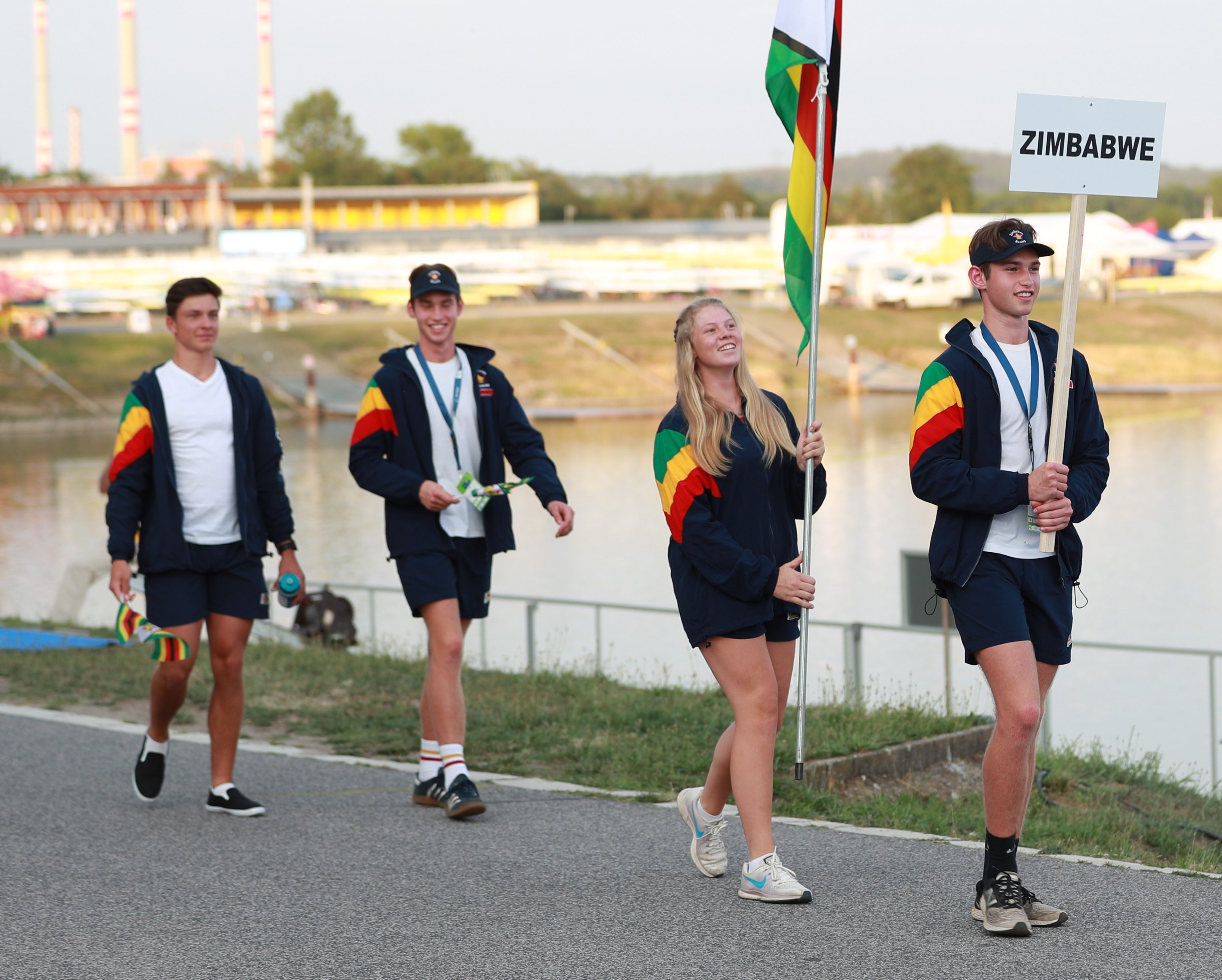 Opening Ceremony at the 2018 World Rowing Junior Championships in Račice u Štětí